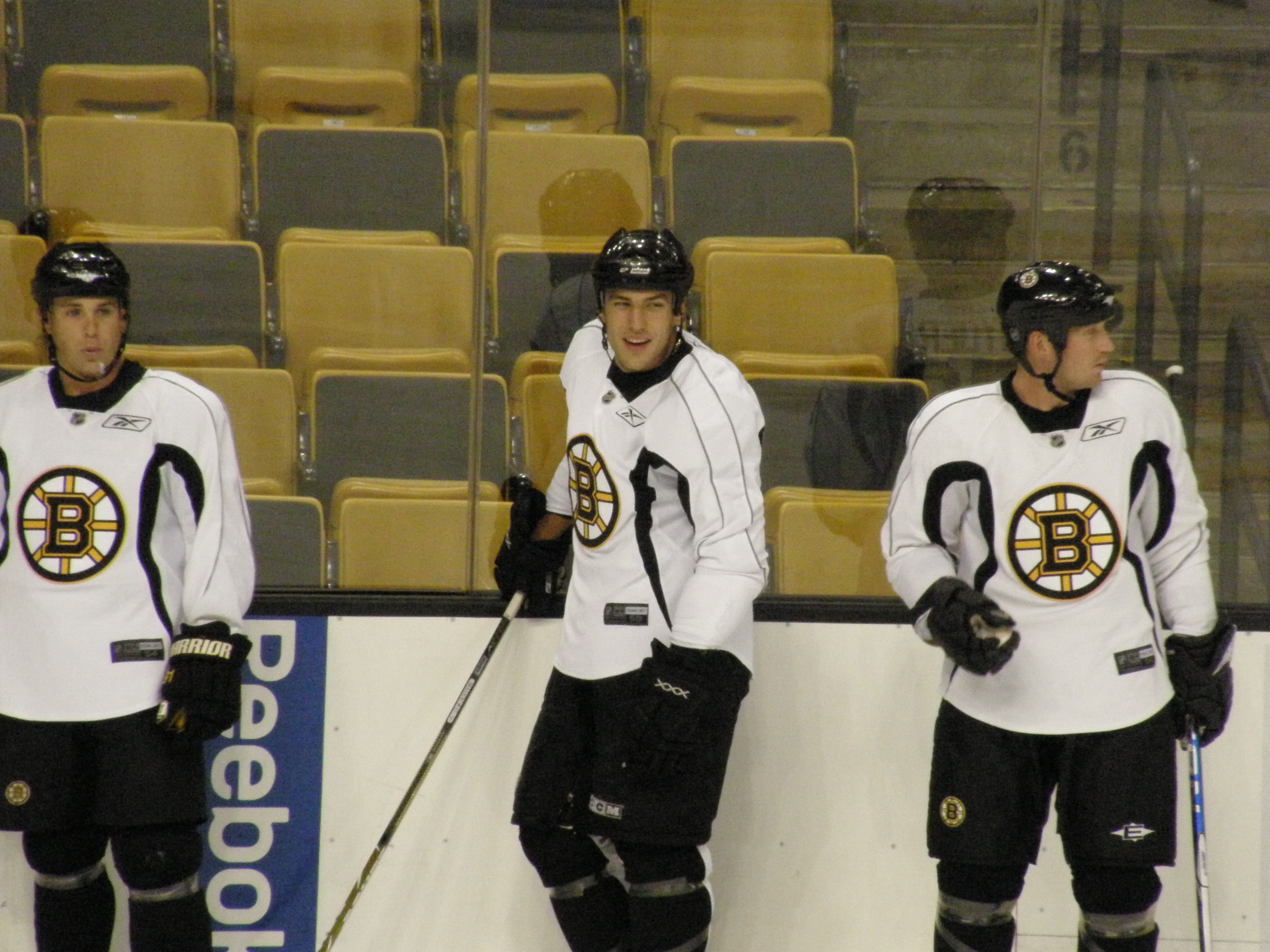 B-Skate's A-Squad: 91 Marc Savard C, 17 Milan Lucic LW, 73 Michael Ryder RW